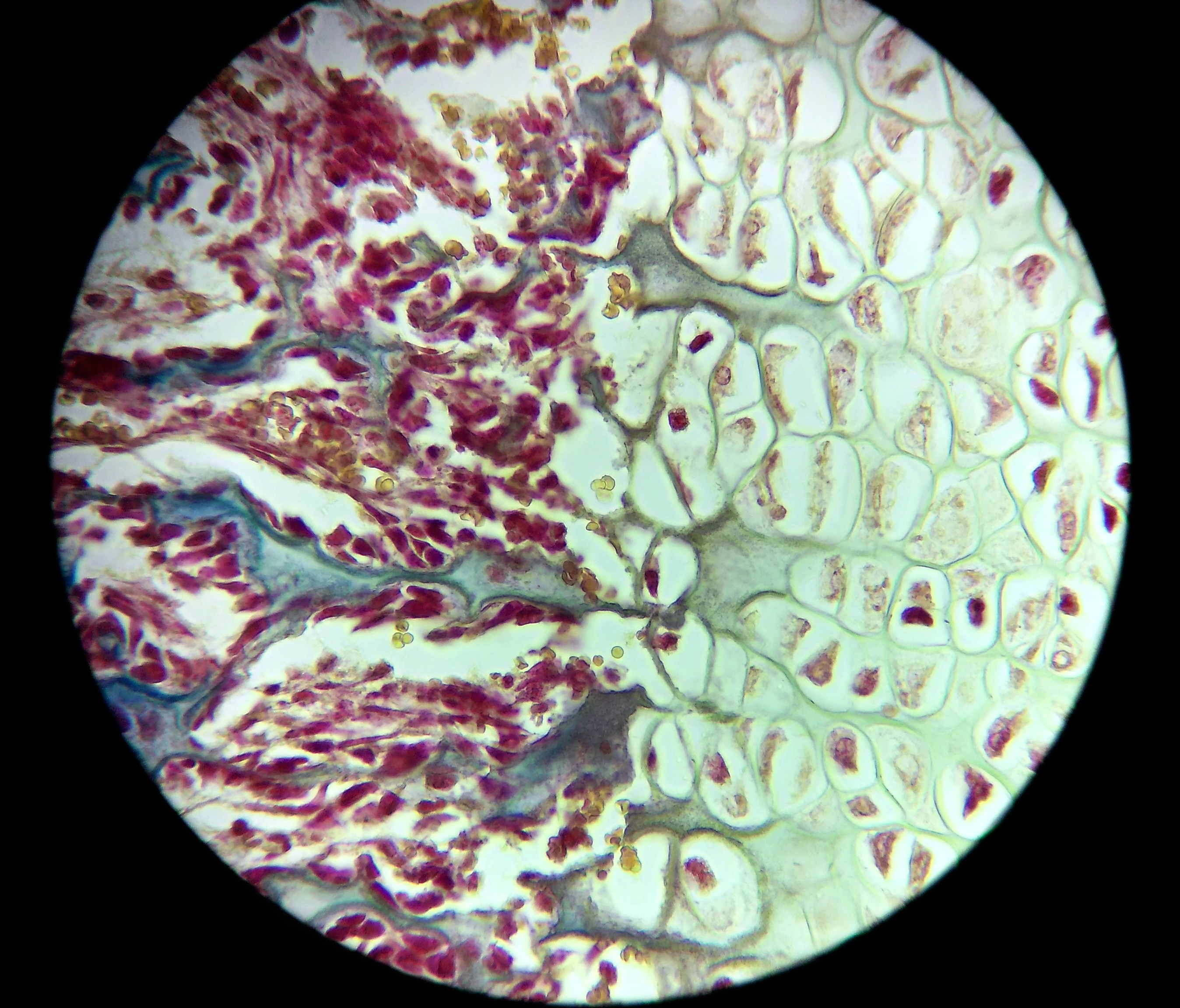 Chondrogenous ossification (blue - trichrome stain)